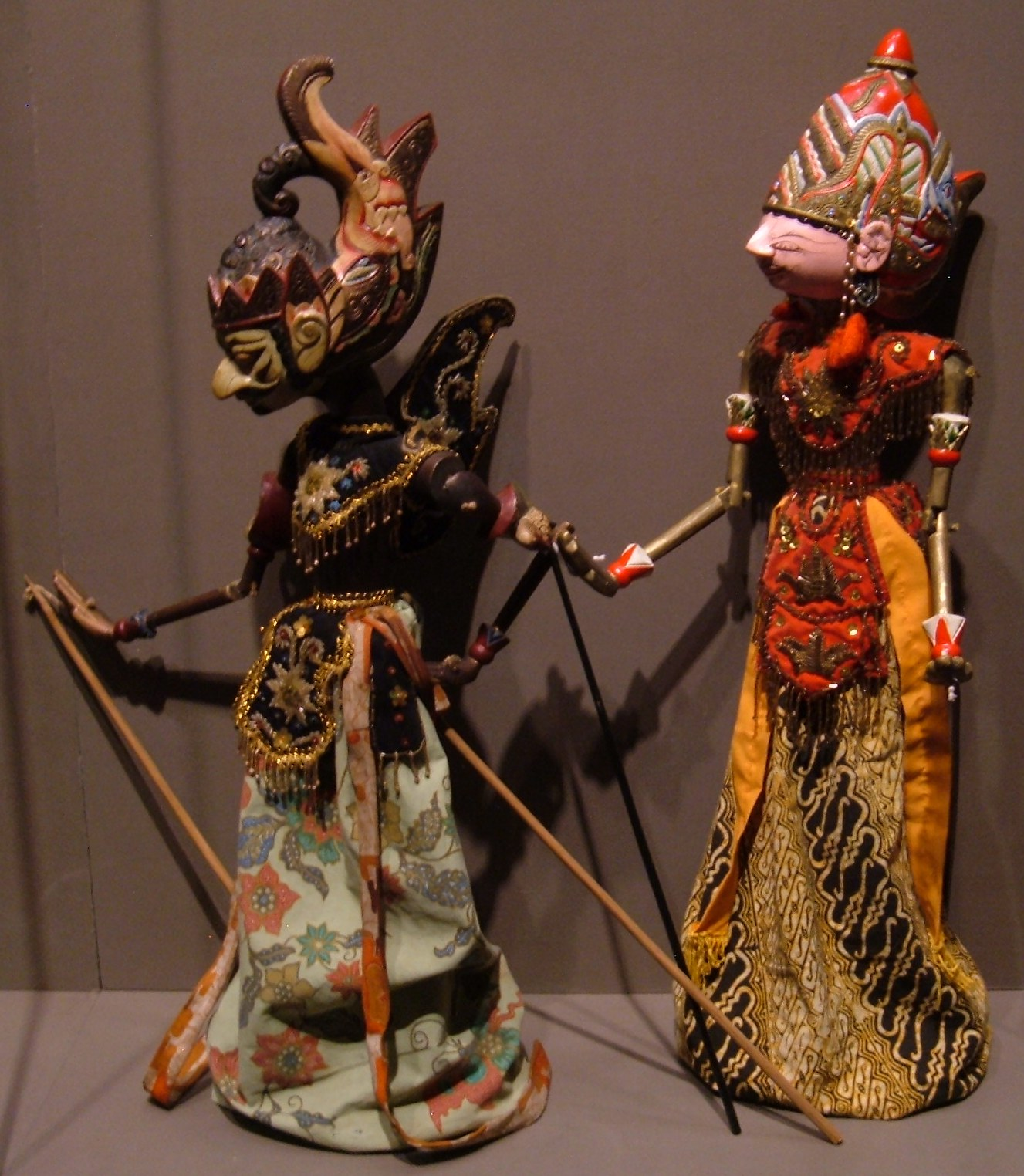 Pair of wayang golek puppets from Java, Indonesia on display at the Asian Art Museum in San Francisco, California. Left: Ghatotkacha, son of Bhima (1970, Object ID: F2000.86.81) and Karna, half-brother of the Pandava brothers (approx. 1980, Object ID: F2000.86.40).